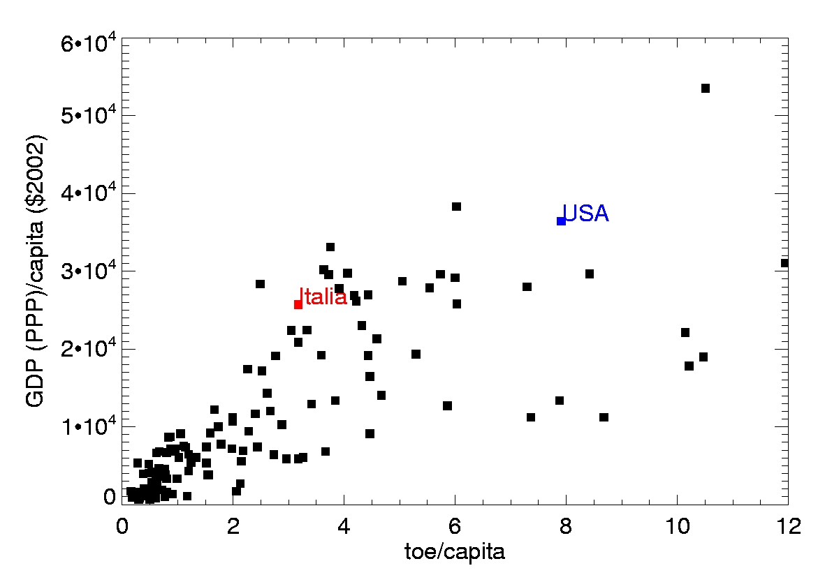 Graph of the Gross Domestic Product GDP (at Purchasing Power Parity-PPP), per capita, as a function of per capita Toes. Year 2004. Data available online at